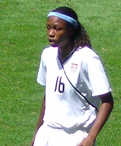 Upper body of Maya Hayes